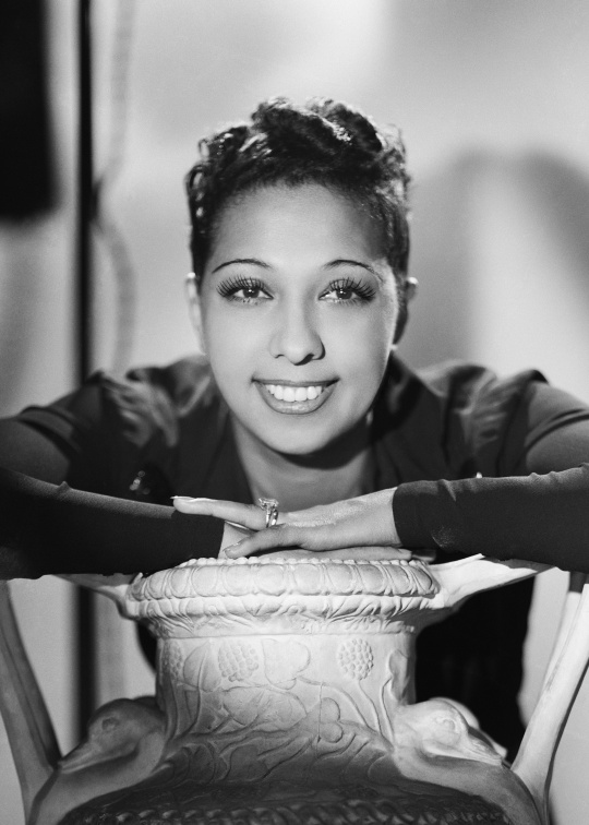 Studio photo